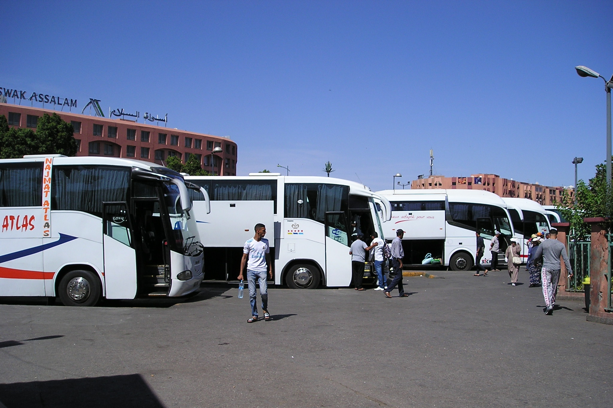 location Bab Doukkala, city Marrakesh